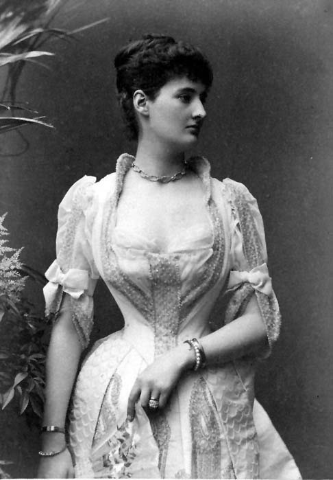 Duchess of Leinster (1864-1895). Ballgown of the late Victorian era